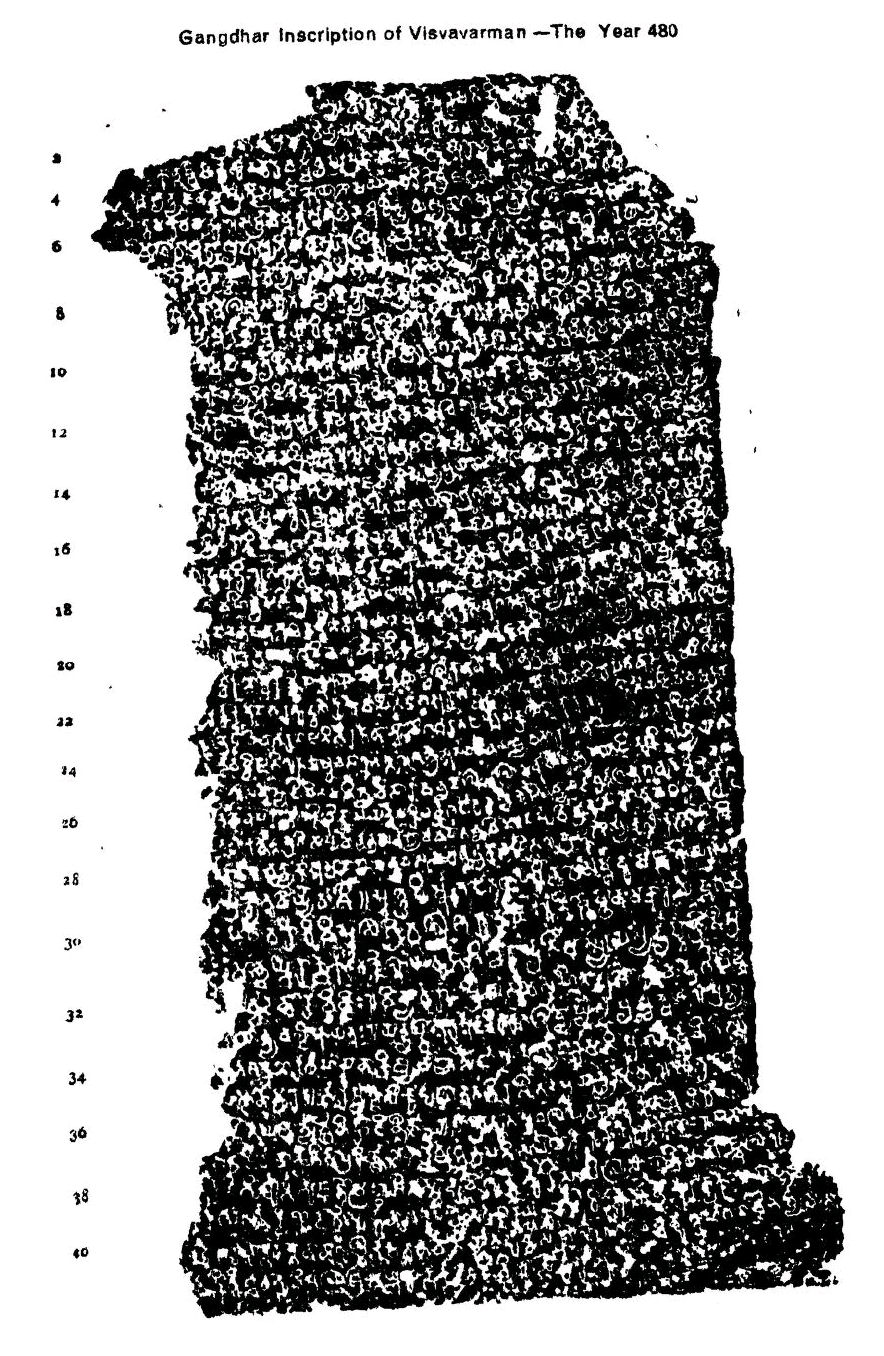 Gangdhar inscription of Vishvavarman